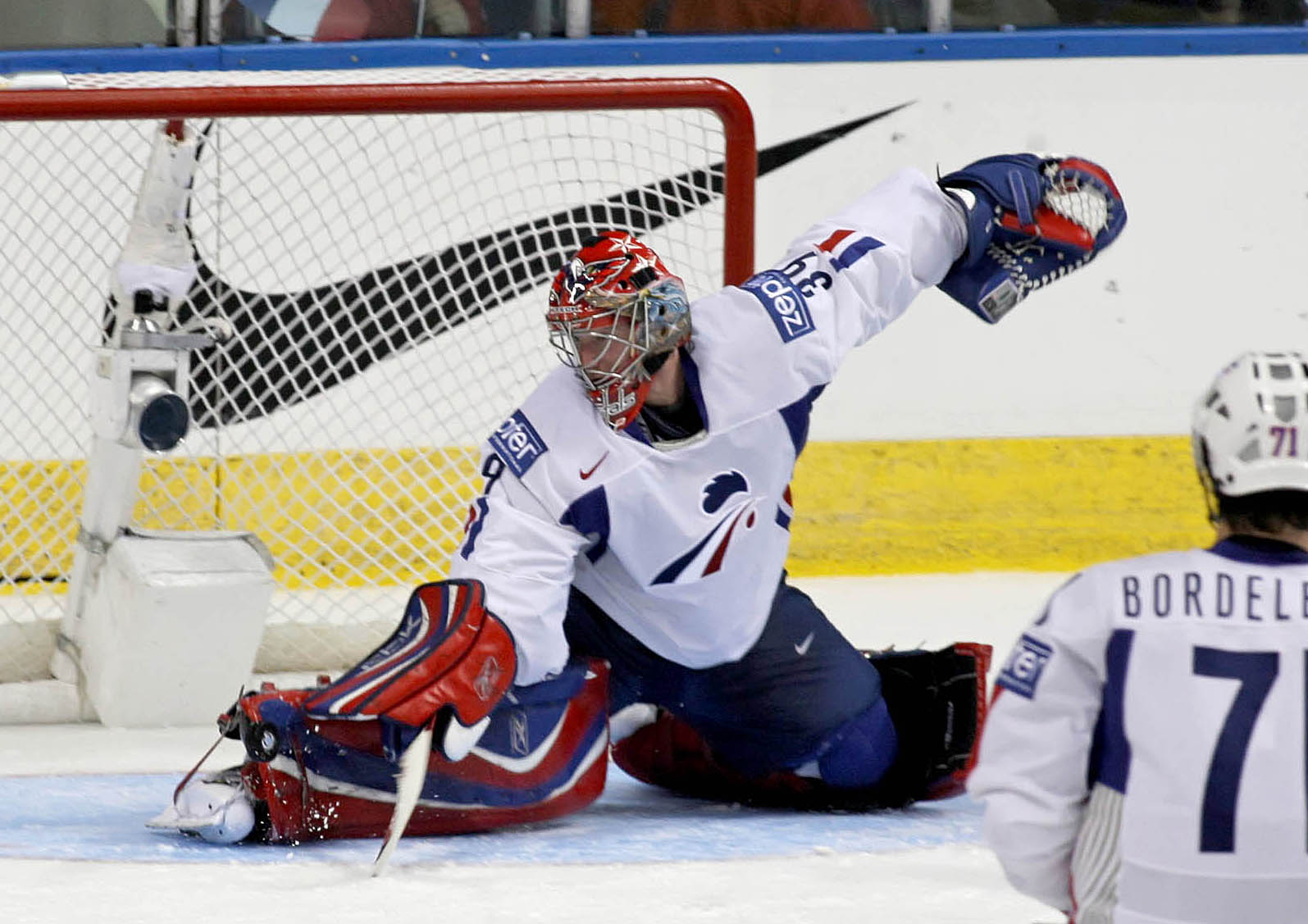 Cristobal Huet - French Ice Hockey goalkeeper. World Championship Quebec 2008